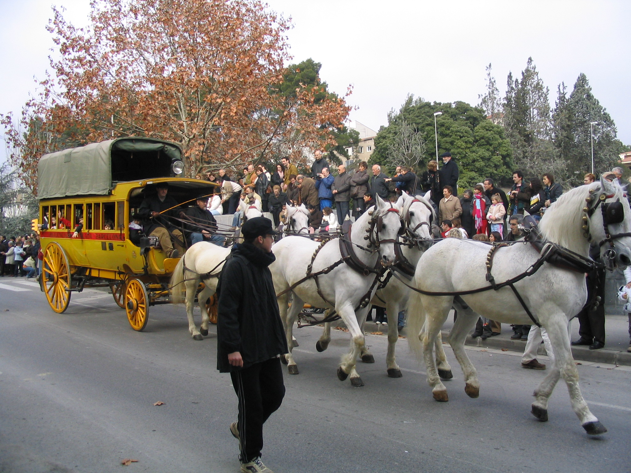 Tres Tombs - Igualada 22-01-2006